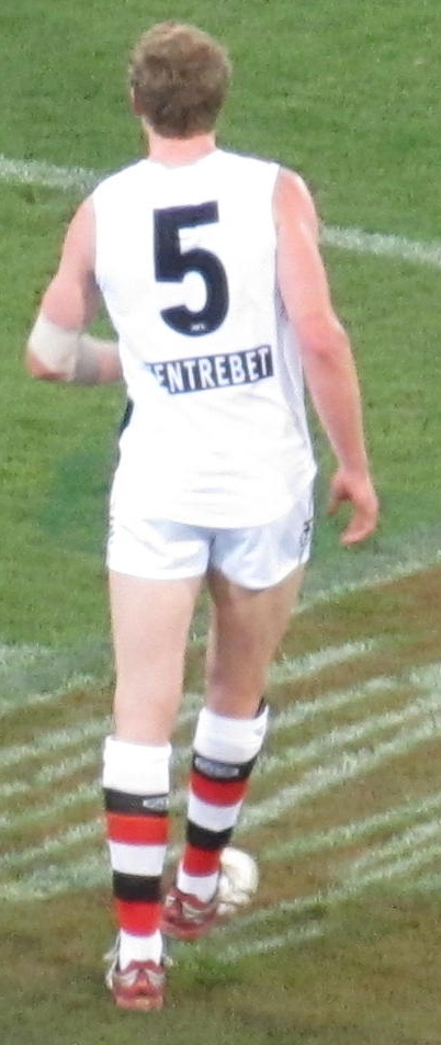 Ben McEvoy playing against Carlton, Round 24, 2011.